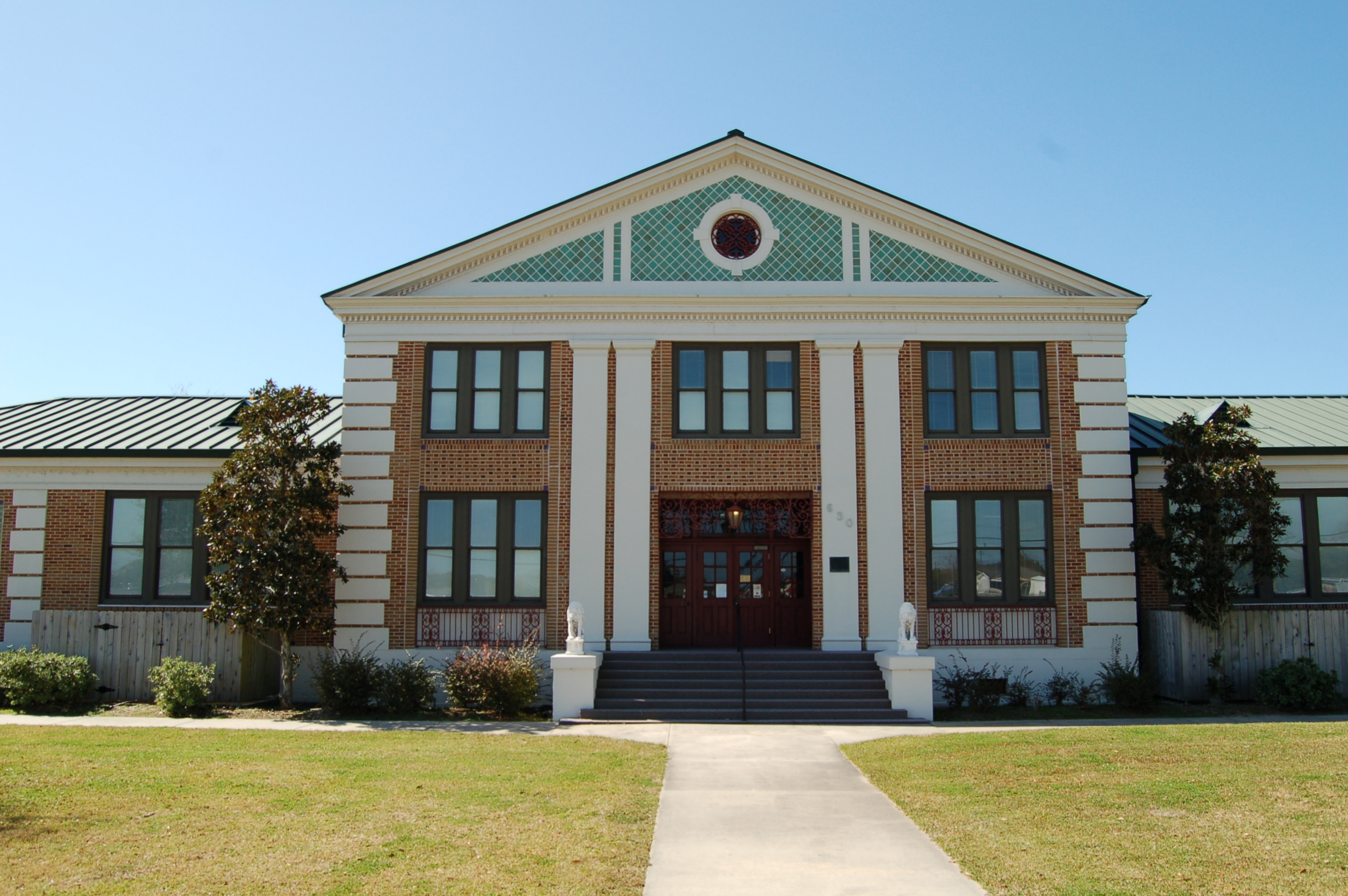 Golden Meadow Middle School is listed on the National Register of Historic Places by its previous name, Golden Meadow High School.